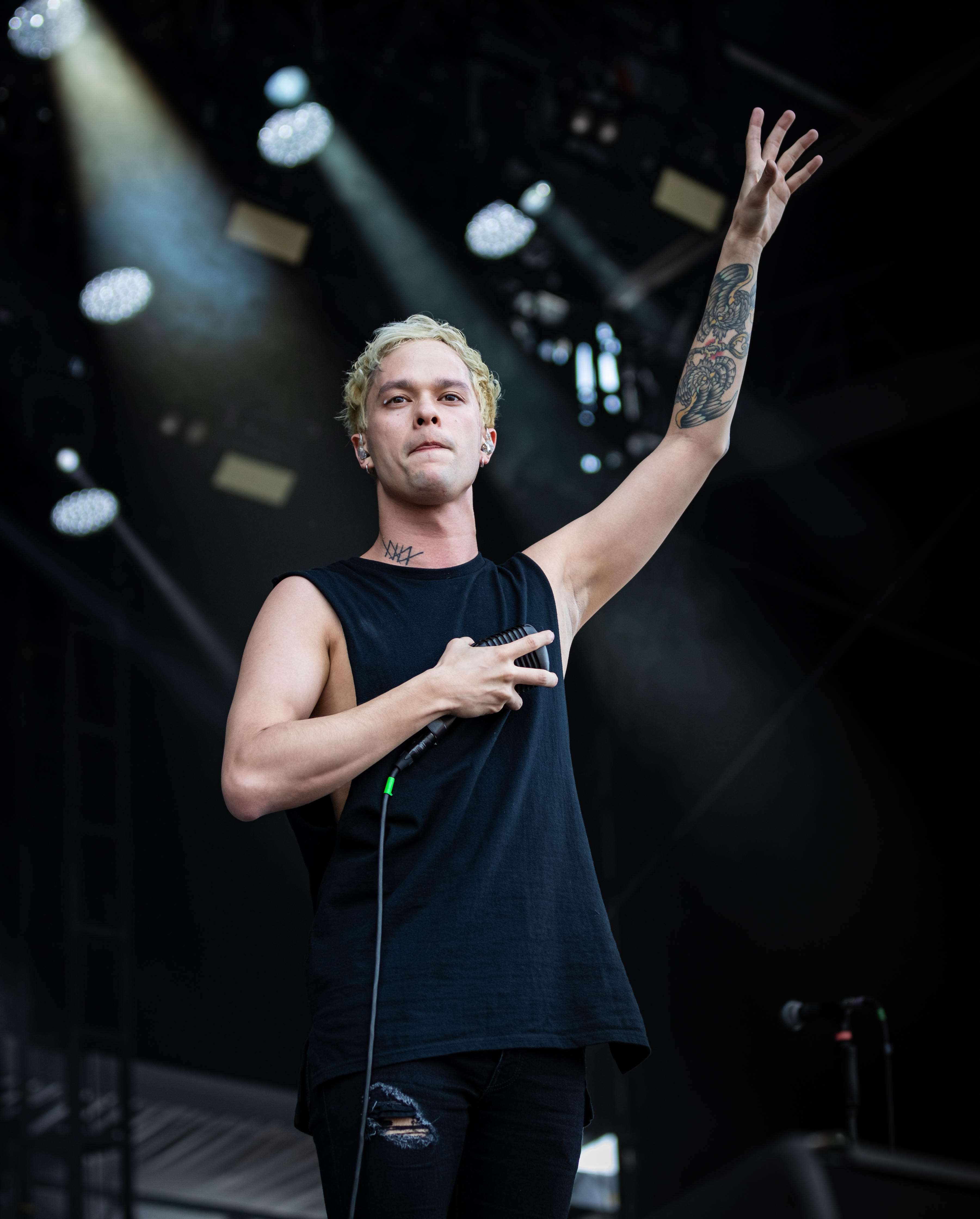 Coldrain - Rock am Ring 2019